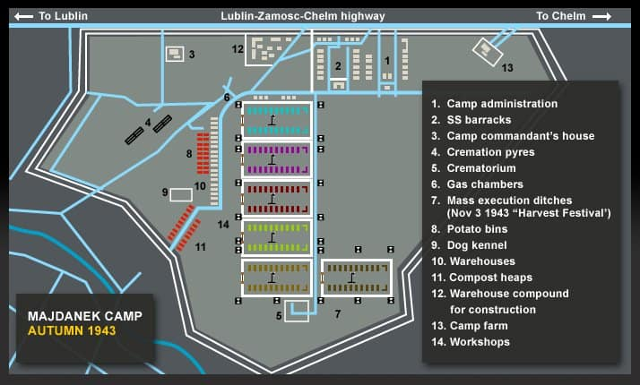 Map of the Majdanek concentration camp.